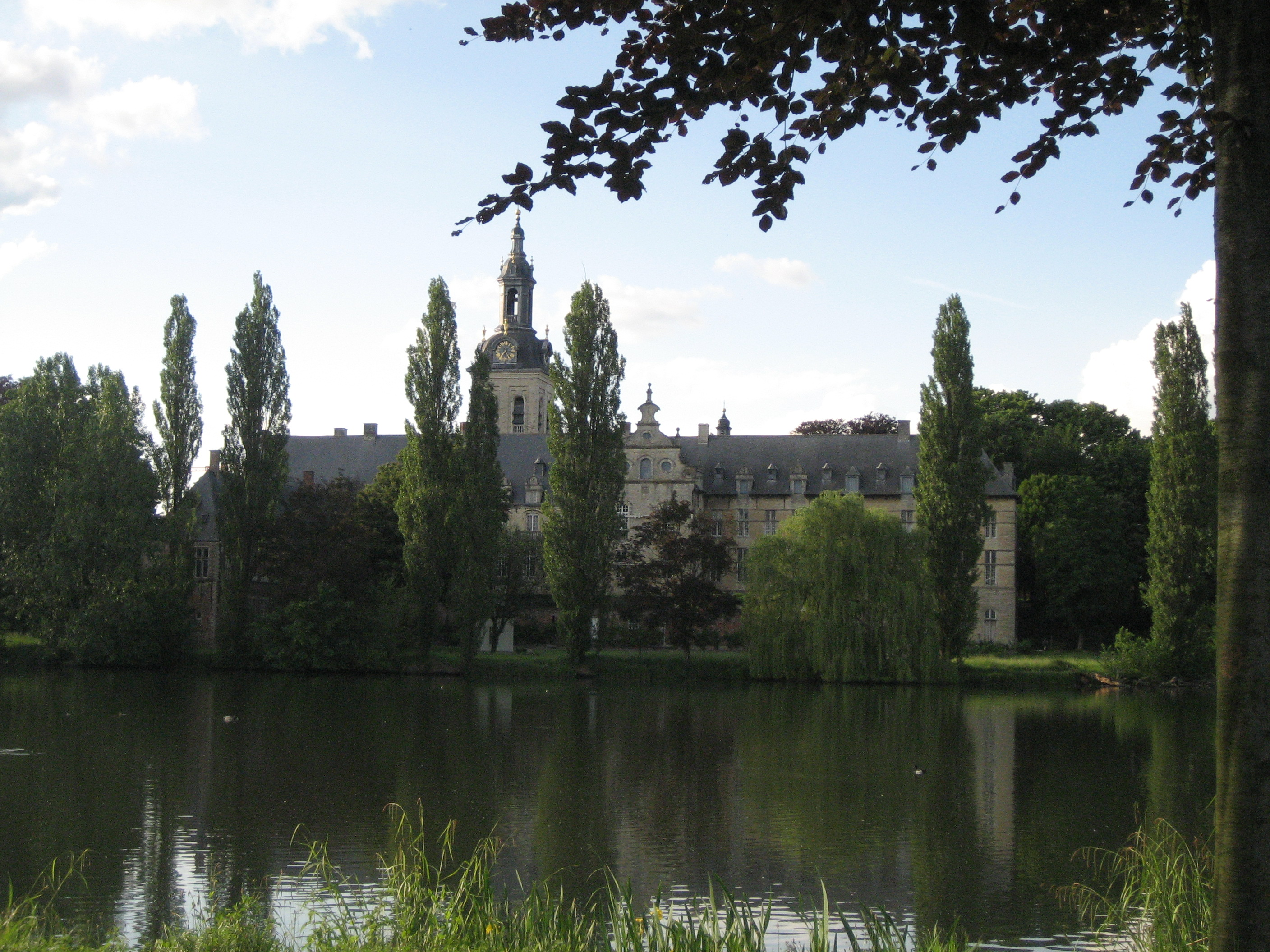 Fishpond of the Abbey of Park, Heverlee, Belgium